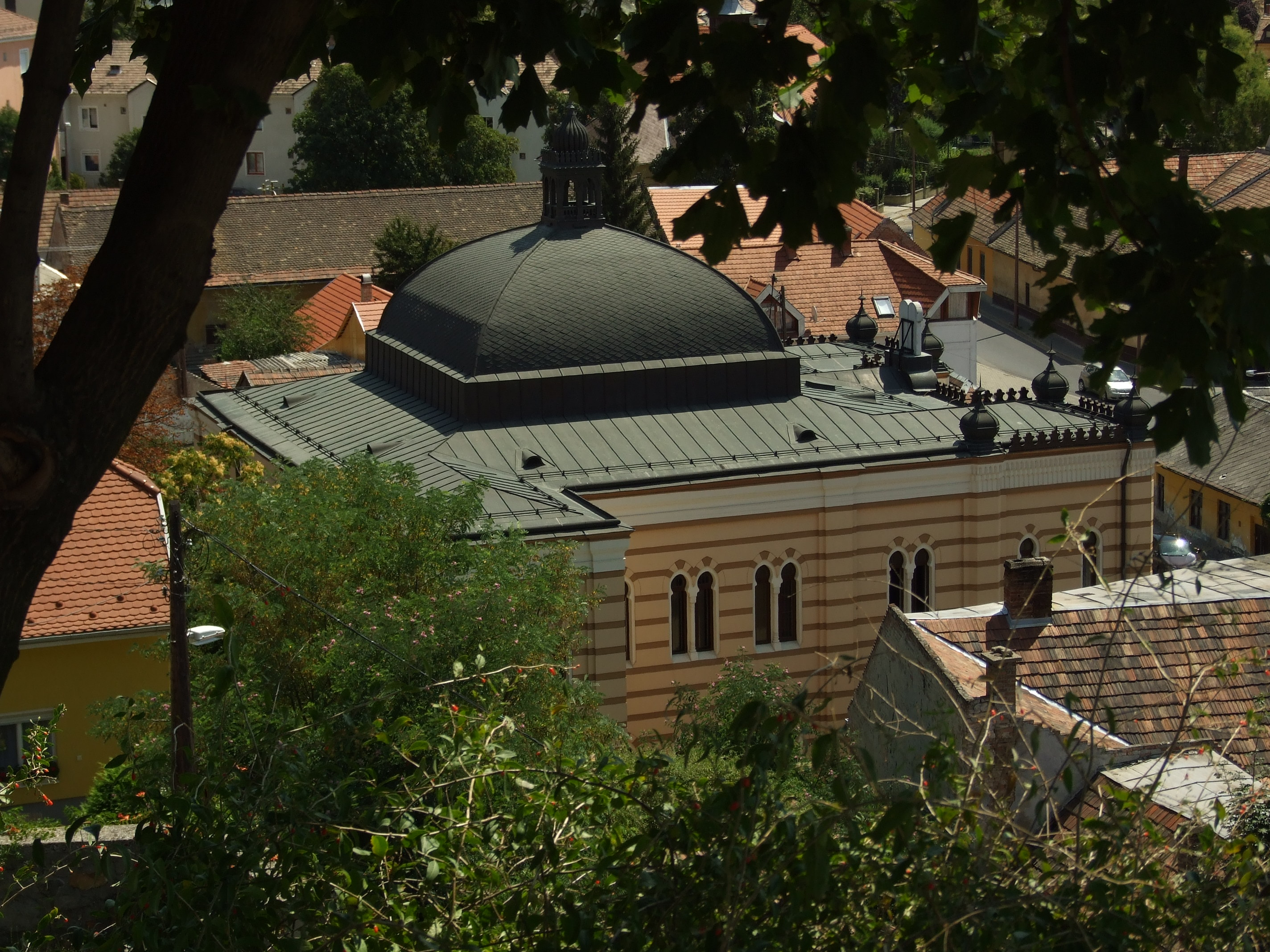 Esztergom - a view of local synagogue, Komárom-Esztergom comitat, Hungaryhelp